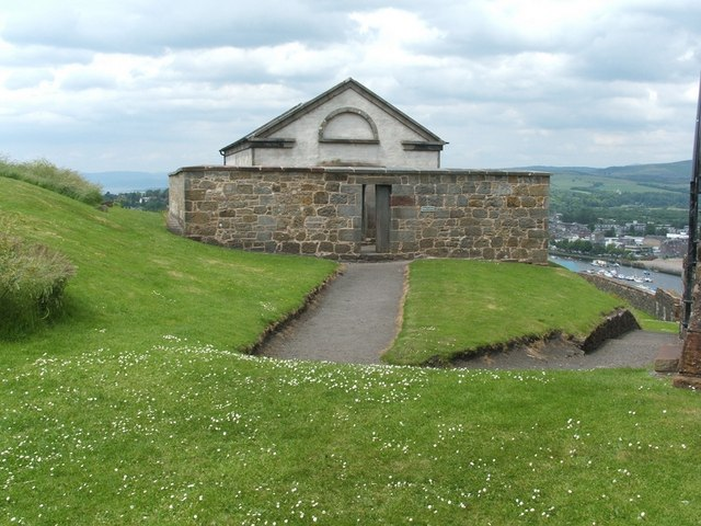 Dumbarton Rock: the Magazine [This is one of a linked series of articles about Dumbarton Rock. See the end of 1380091 for a list of the reference works that are cited here in abbreviated form.] This powder magazine was built in 1748; it could hold 150 barrels of gunpowder. It replaced an earlier magazine that stood against a nearby section of the curtain wall of the castle [OSG07, p5]. (The site of the earlier building is shown in the next article in this series.) The building is surrounded by a blast wall; an information panel located on the inside of that wall shows a plan of the building, and describes the care that was taken to prevent accidental ignition of the gunpowder; for example, to reduce the risk of sparks, those entering the magazine had to exchange their hobnailed boots for wooden clogs. On the night of May 5-6, 1941, this building received a direct hit from a high-explosive bomb, one of four that hit the Rock, although they were presumably intended for the nearby Blackburn aircraft factory or for Denny's shipyards. The north-east corner of the outer wall of the magazine was demolished by the blast (fortunately, the building had long ago ceased to be used in its original role) [MacPhail, p165-6]. Previous: 1381450. Next: 1381489.